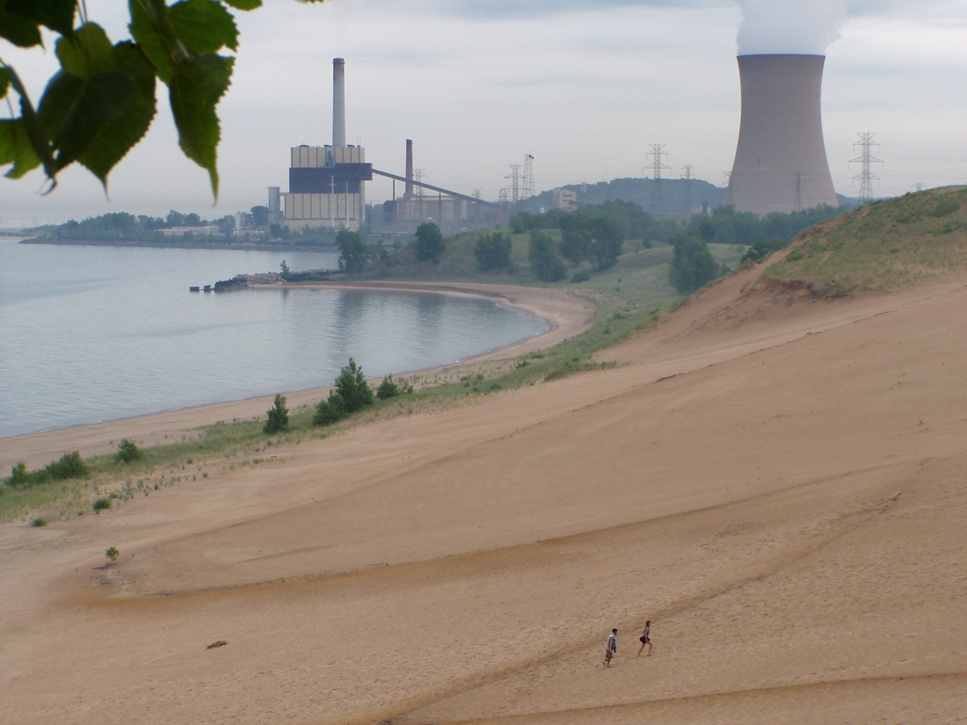 Clay bands exposed on Mt Baldy, Indiana Dunes Nat'l Lakeshore near Michigan City, Ind.